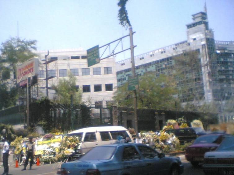 Flowers in front of the Australian Embassy in Jakarta a few days after the 2004 bombing